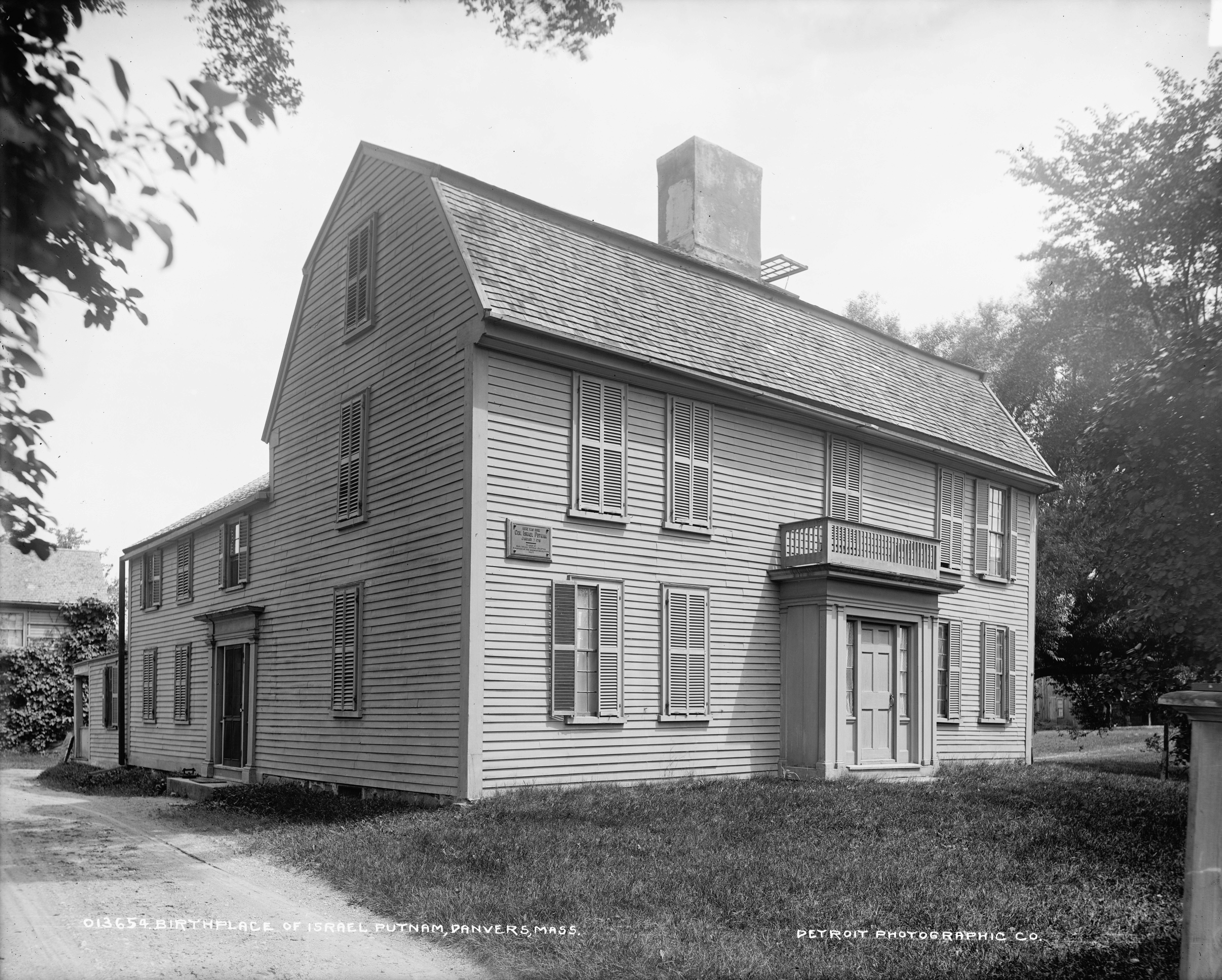 Birthplace of Israel Putnam, Danvers, Mass. Created/Published: ca. 1900. Publisher: Detroit Publishing Co. no. 013654. Repository: Library of Congress Prints and Photographs Division Washington, D.C. 20540 USA. Public Domain.